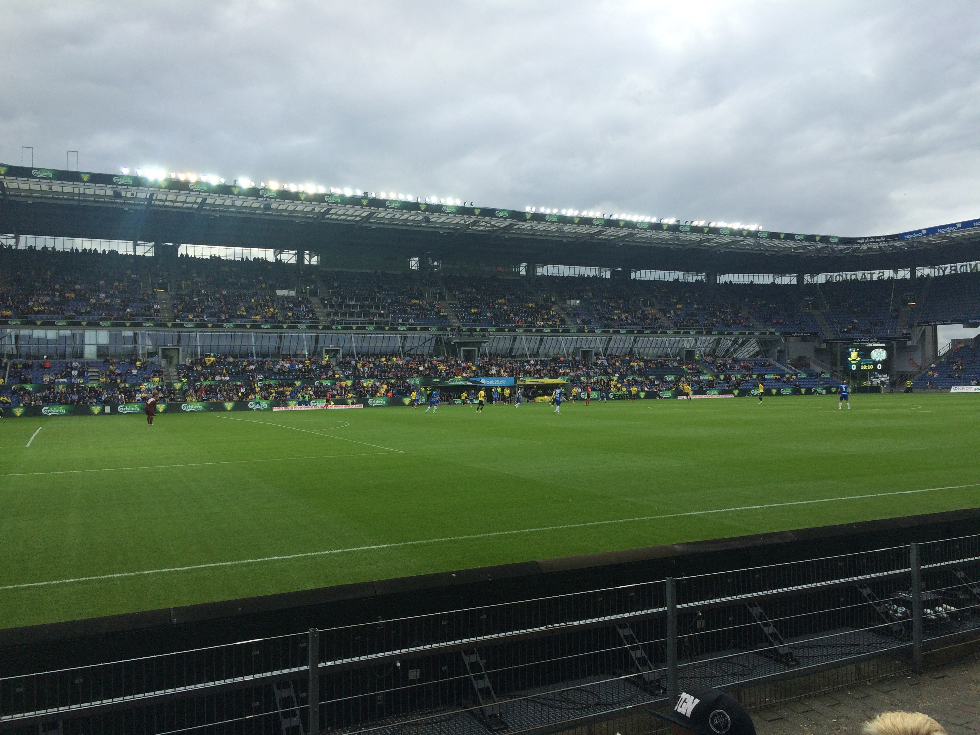 View of Brøndby Stadium from inside in July 2016